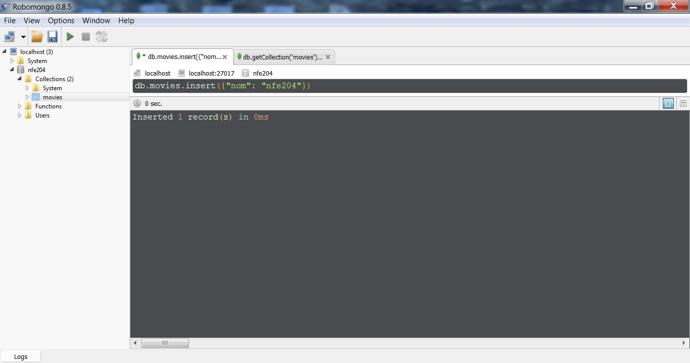 Record insertion in MongoDB with Robomongo 0.8.5.